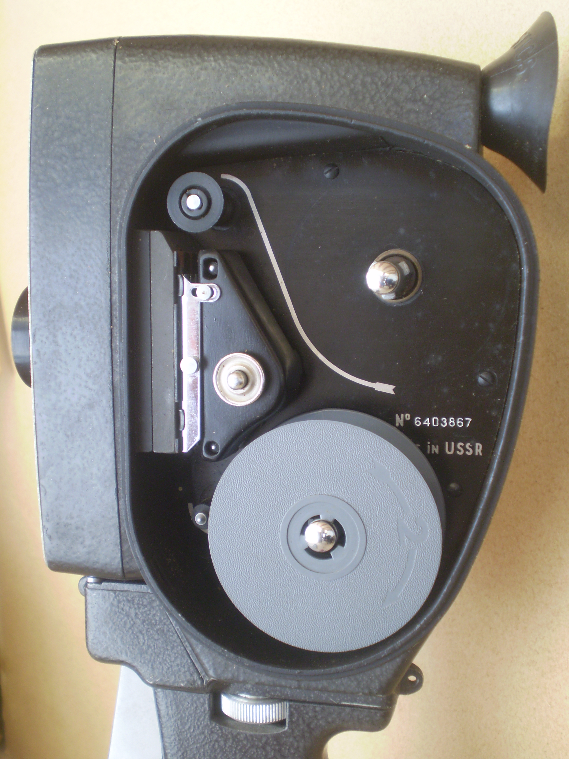 Quarz-M film chamber